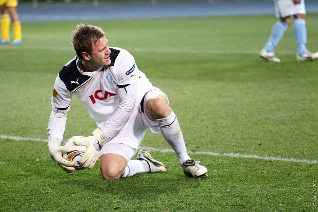 Johan Dahlin, goalkeeper in Malmö FF